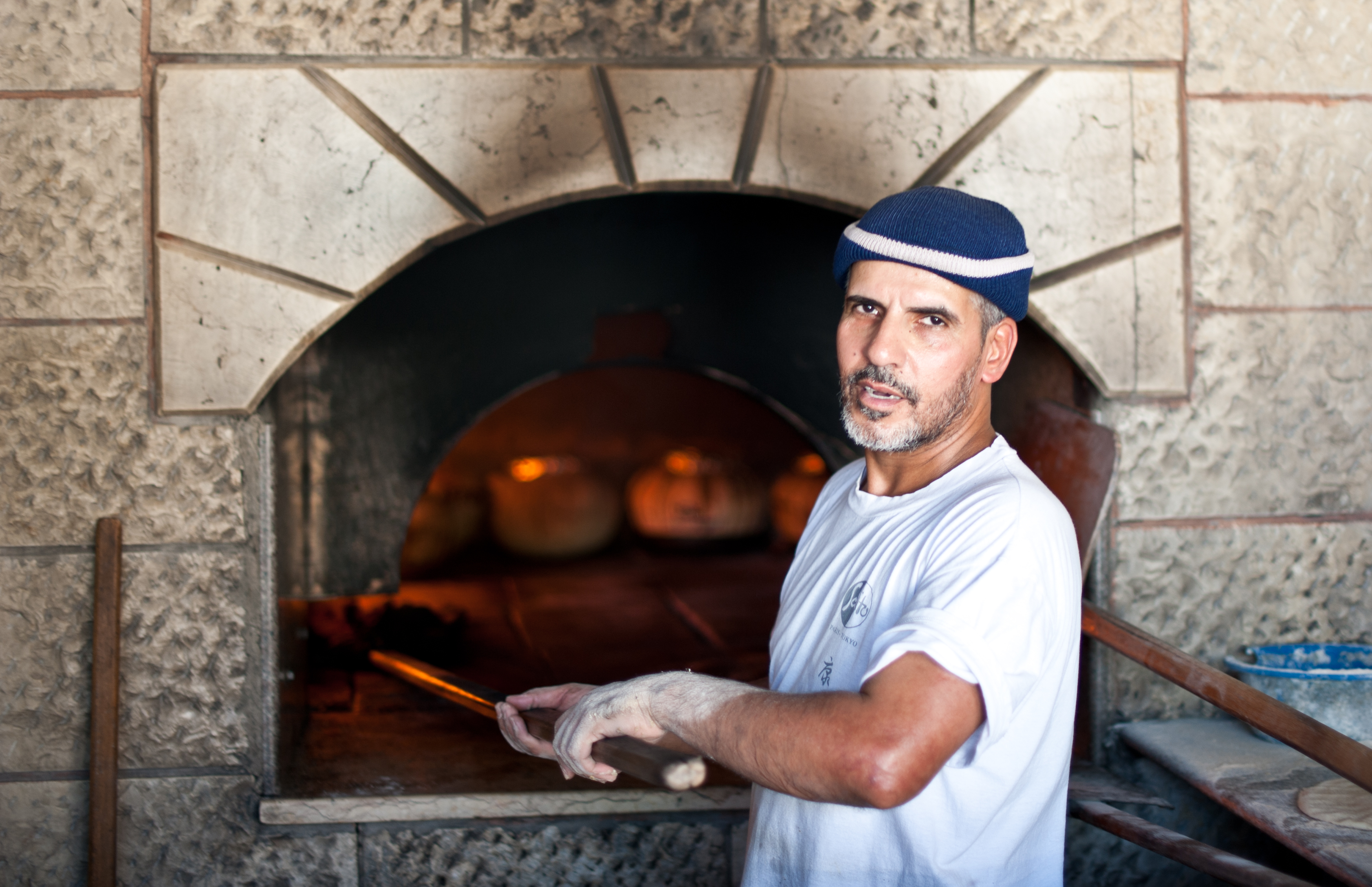 A baker outside the Balata refugee camp in Nablus, West Bank, Palestine